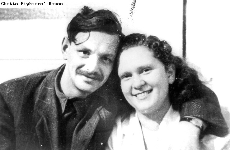 Chavka Folman Raban, Yitzach Zuckerman